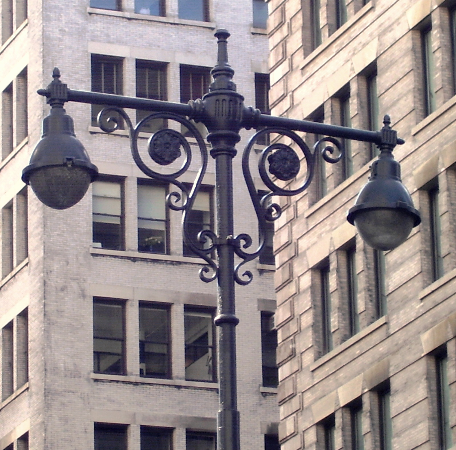 Twin lamp post lanterns. One of the approximately 100 historic cast-iron street lampposts which were designated as landmarks by the New York City Landmarks Preservation Commission in 1997. This ornamental post is located on the southheast corner of Fifth Avenue and East 19th Street in the Flatiron District of Manhattan, New York City. (Source: Guide to NYC Landmarks (4th ed.))